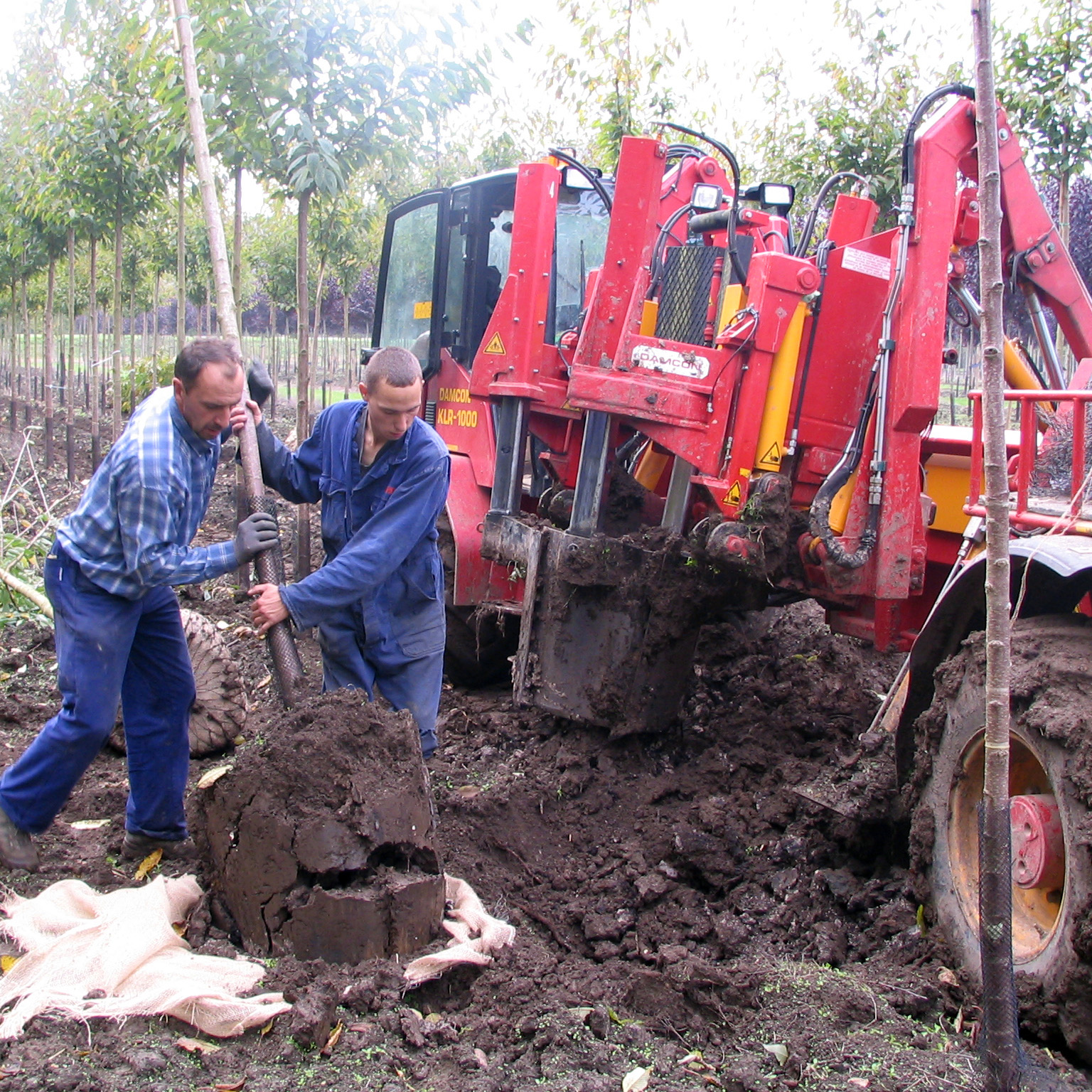 Tree spade Damcon